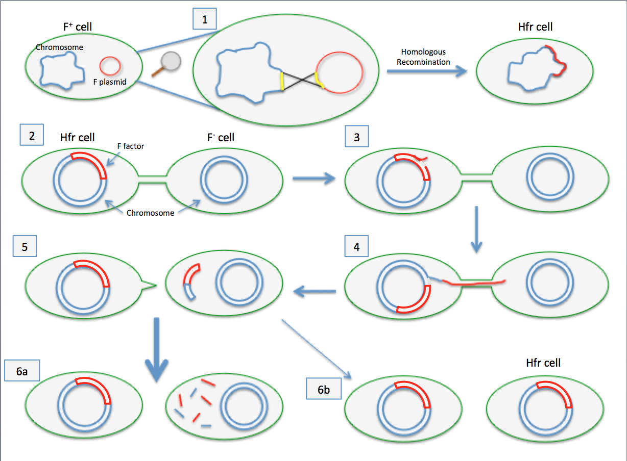 1. The insertion sequences (yellow) on both the F factor plasmid and the chromosome have similar sequences, allowing the F factor to insert itself into the genome of the cell. This is called homologous recombination and creates an Hfr (high frequency of recombination) cell. 2. The Hfr cell forms a pilus and attaches to a recipient F- cell. 3. A nick in one strand of the Hfr cell’s chromosome is created. 4. DNA begins to be transferred from the Hfr cell to the recipient cell while the second strand of its chromosome is being replicated. 5. The pilus detaches from the recipient cell and retracts. The Hfr cell ideally wants to transfer its entire genome to the recipient cell. However, due to its large size and inability to keep in contact with the recipient cell, it is not able to do so. 6. a. The F- cell remains F- because the entire F factor sequence was not received. Since no homologous recombination occurred, the DNA that was transferred is degraded by enzymes. b. In very rare cases, the F factor will be completely transferred and the F- cell will become an Hfr cell.